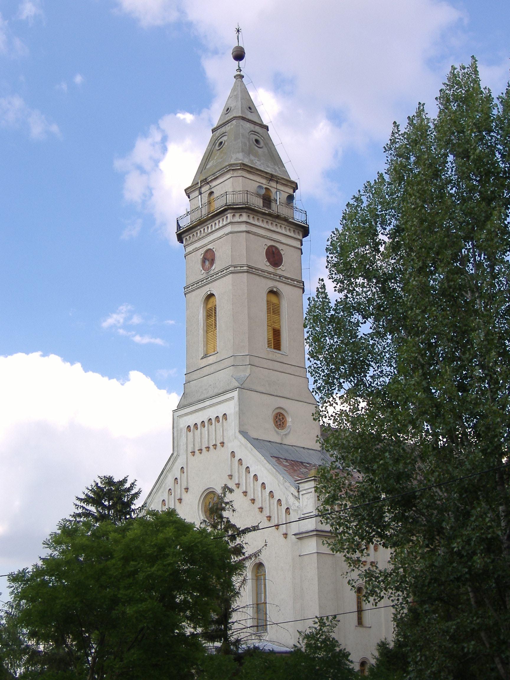 Side view of the Reformed church in Makó, Újváros ("New town") township in Hungary.